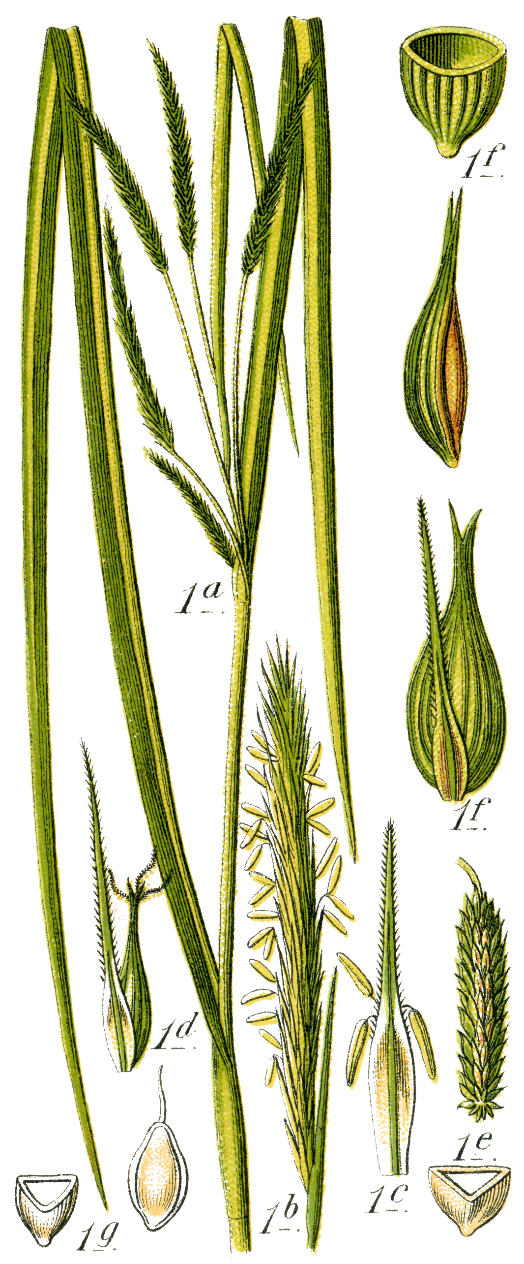 Carex pseudocyperus. Left half of original plate captioned: Falsches Cypergras, Carex pseudocyperus Schnabel-Segge, Carex rostrata